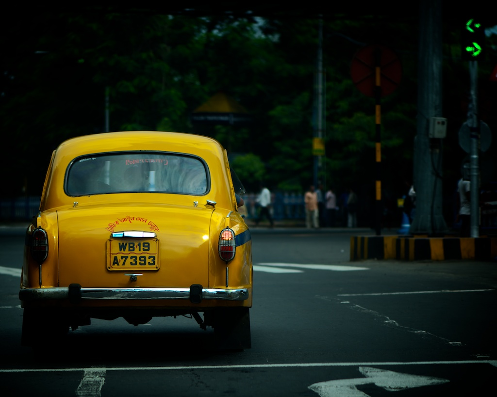 signature of kolkata